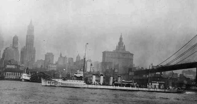 USCG McDougal (CG-6), ex-USS McDougal (DD-54), on Coast Guard service during the Prohibition Era.